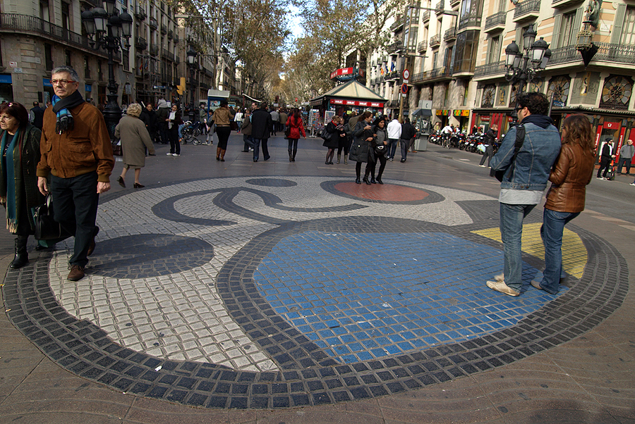 A mosaic by Joan Miró on the Ramblas of Barcelona